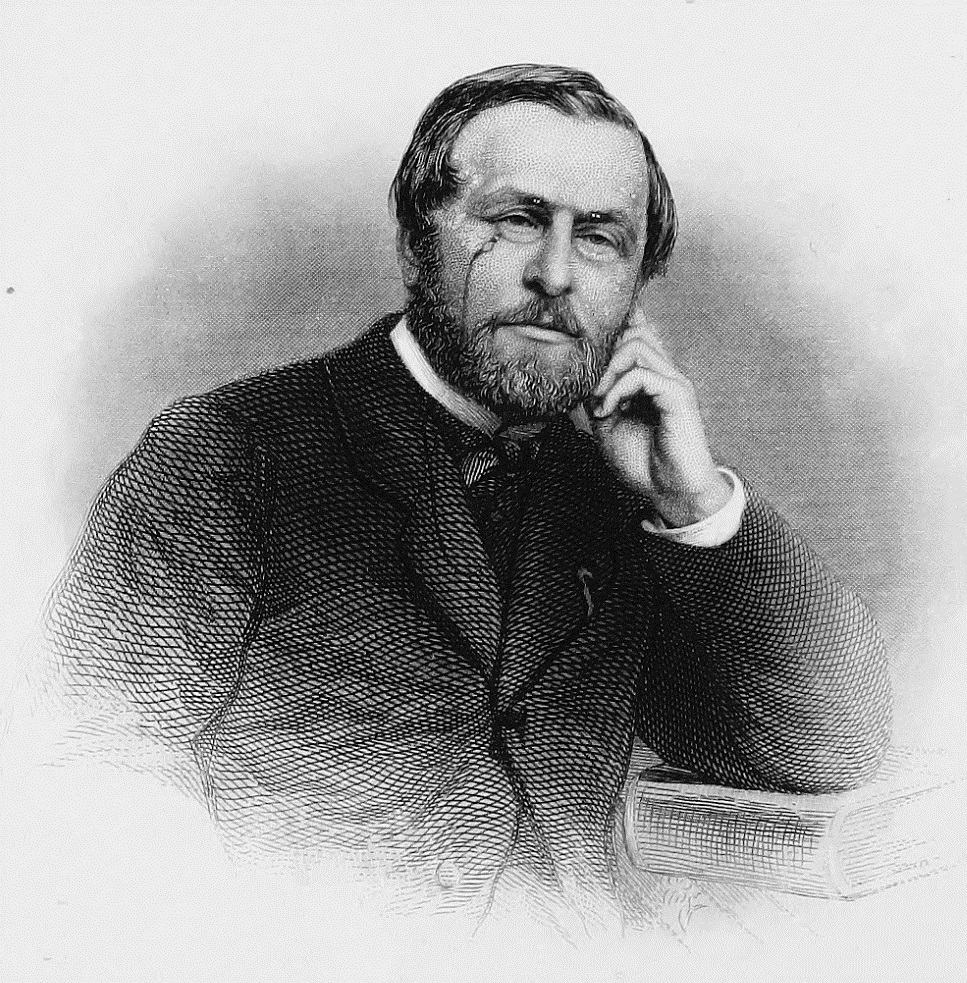 Hippolyte Taine